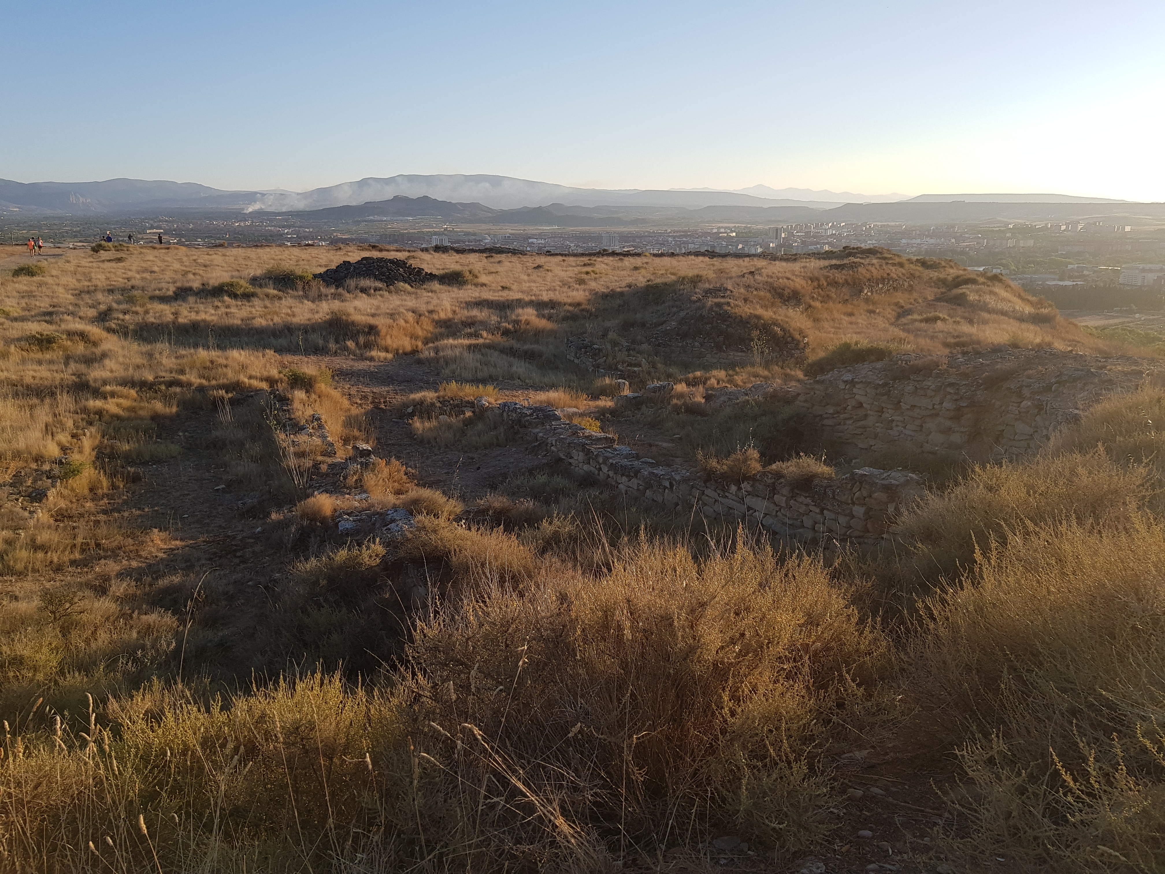 Ruins found on top of Monte Cantabria in Logroño, La Rioja, Spain.